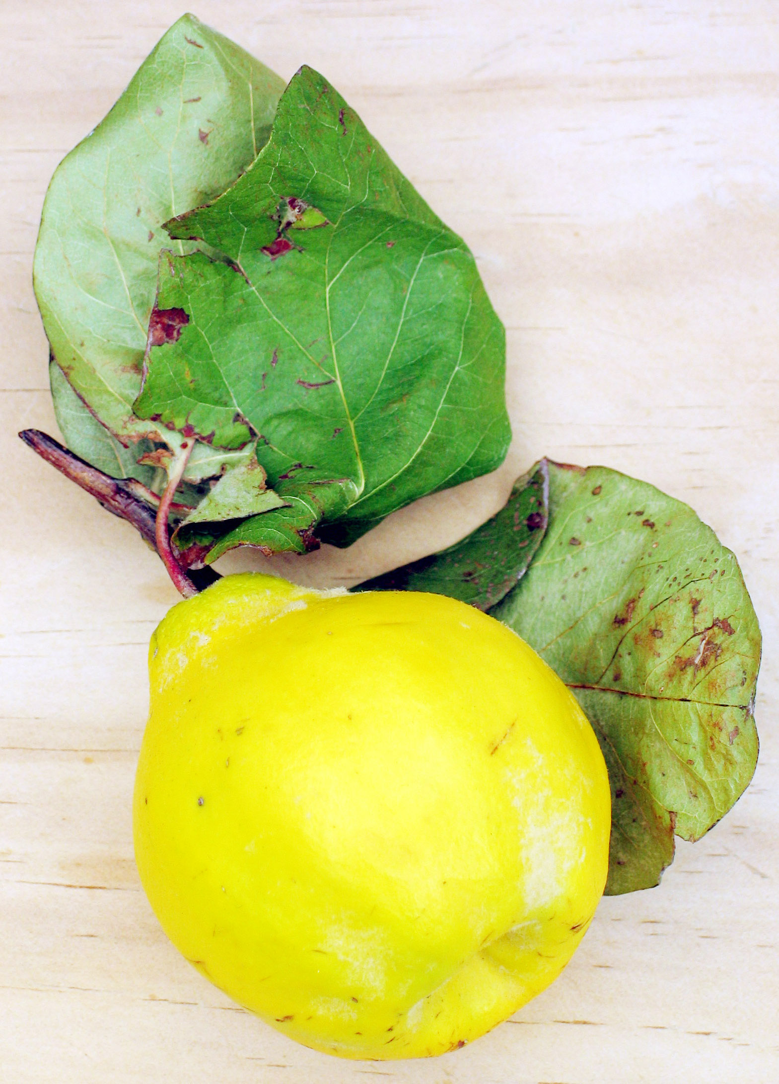 Quince